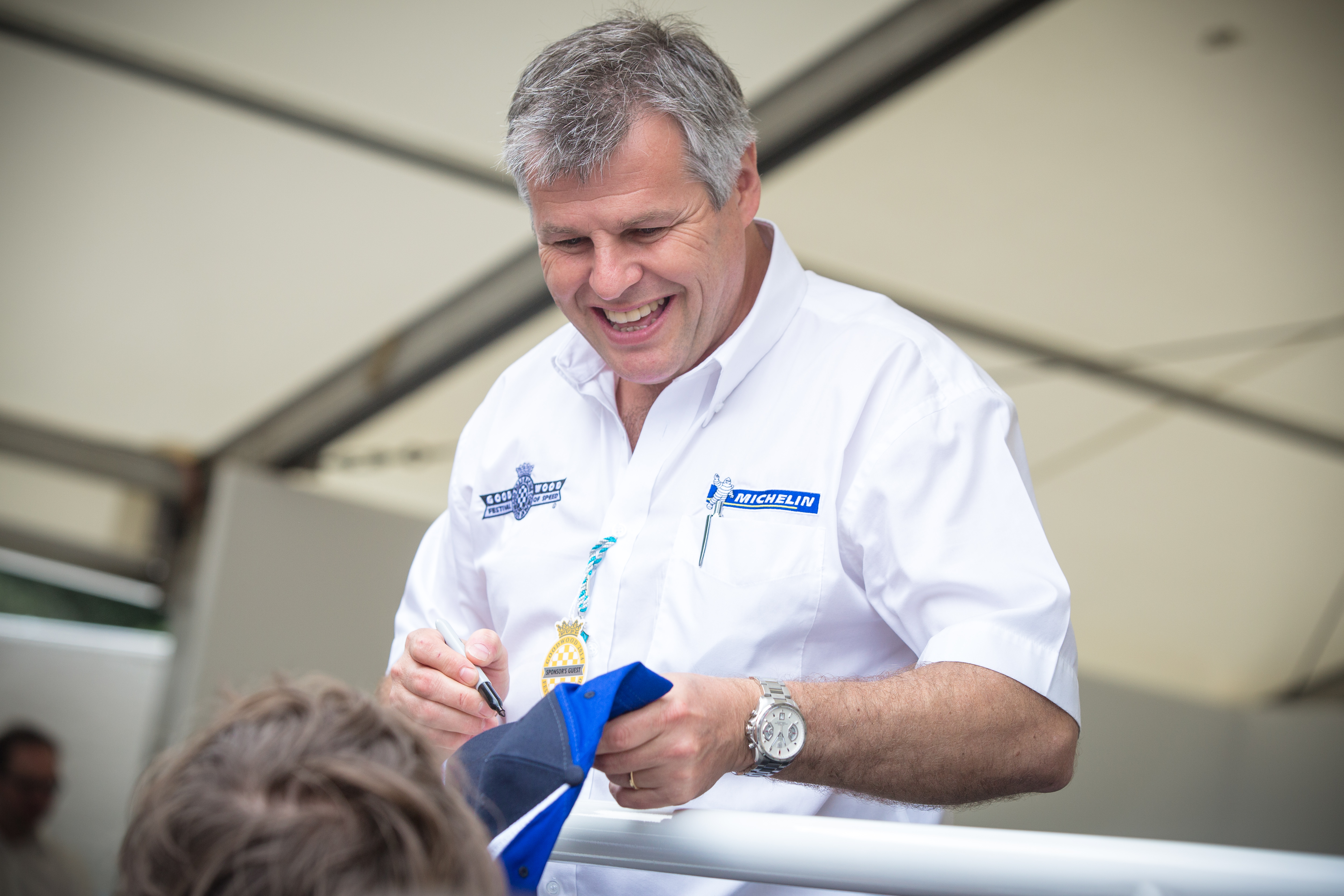 See more photos and video at